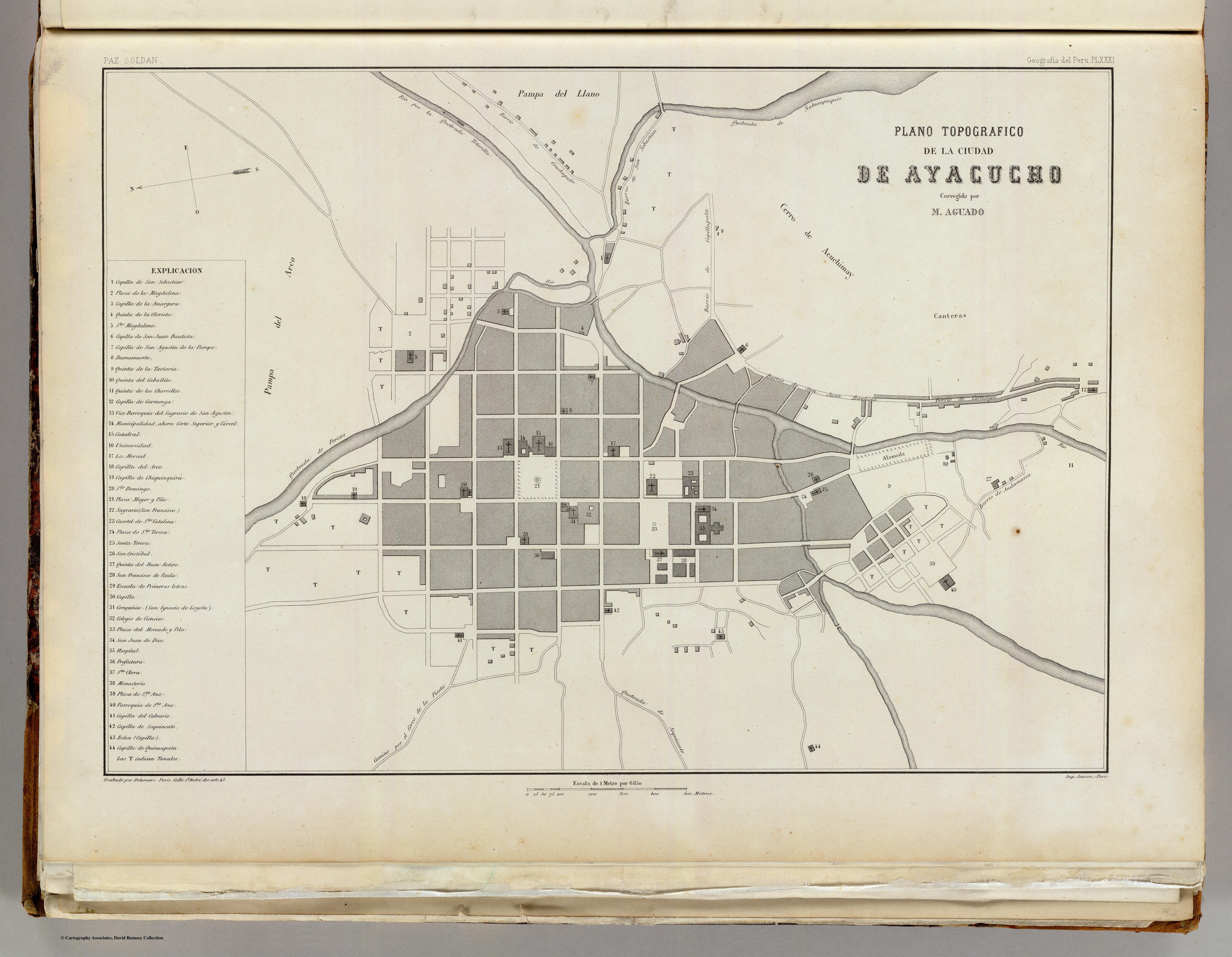 Mapa de Ayacucho, 1865